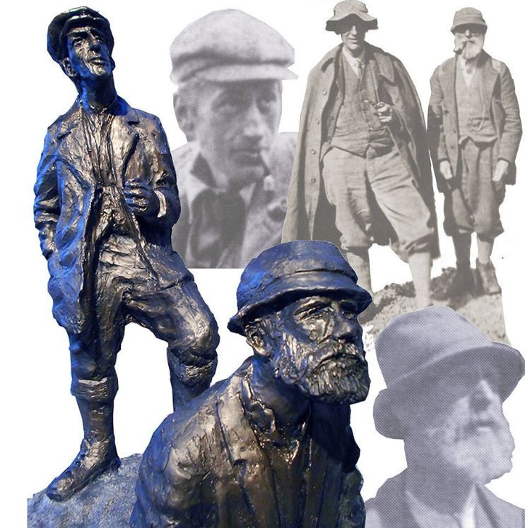 Montage of images, photographs and proposed statues